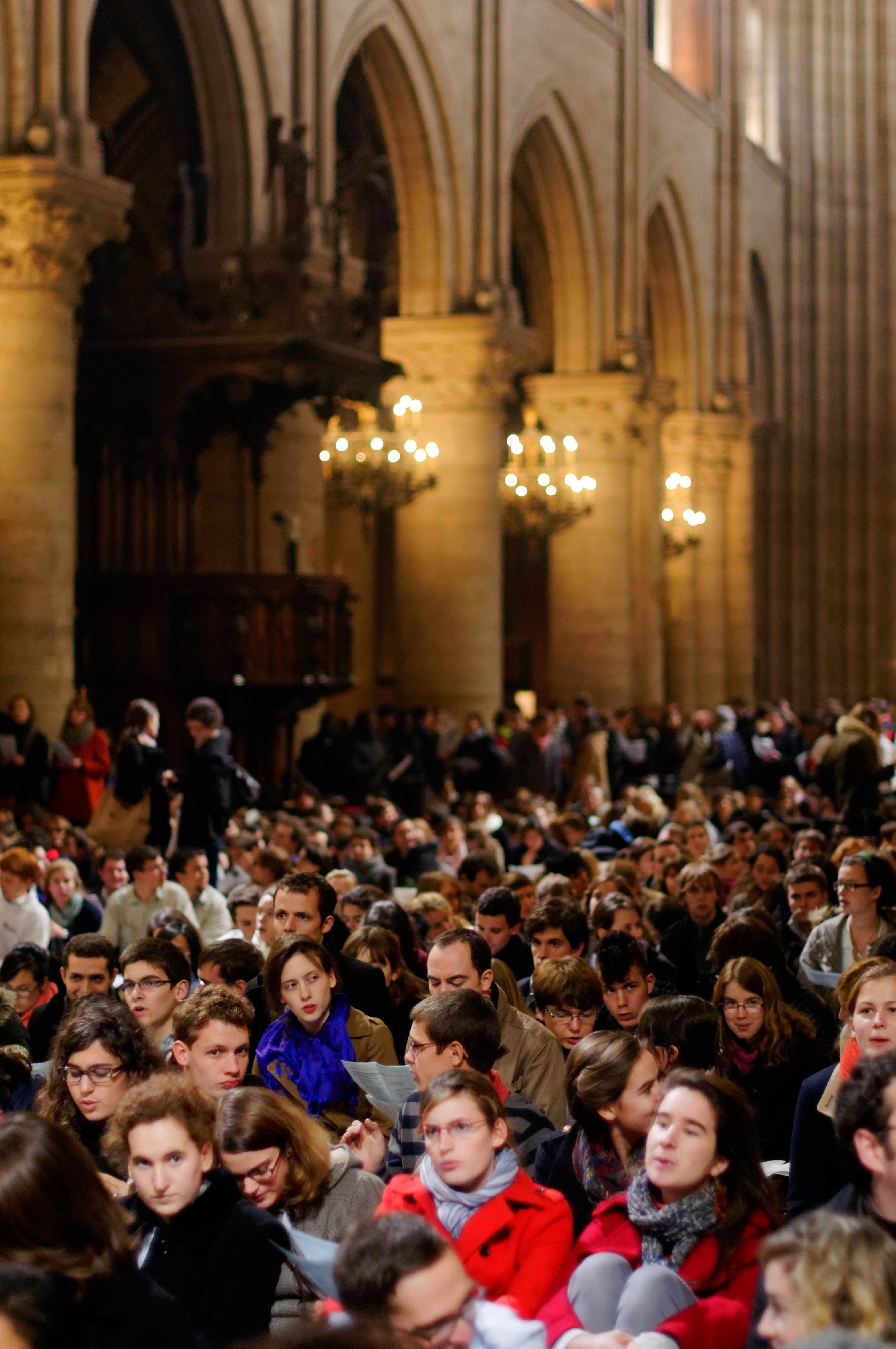 Île-de-France students' mass in Cathedral Notre Dame de Paris.